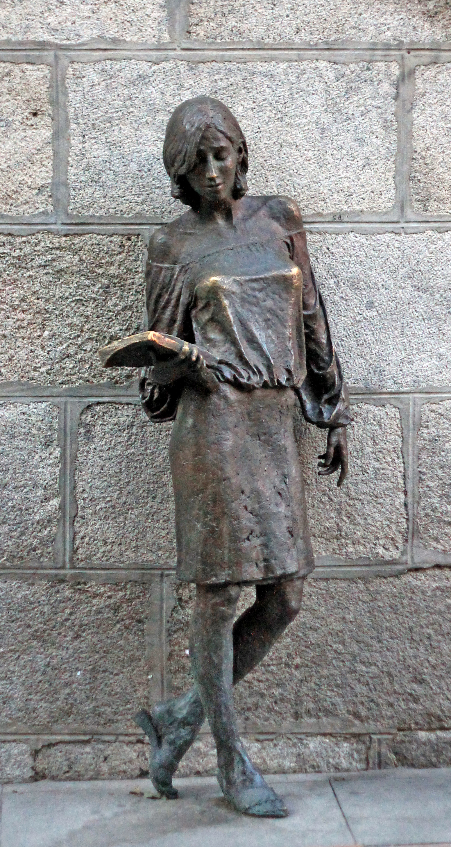 Homage to the old University of Madrid.